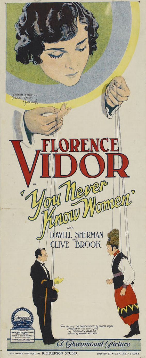 This is a poster for the 1926 American silent drama film You Never Know Women.